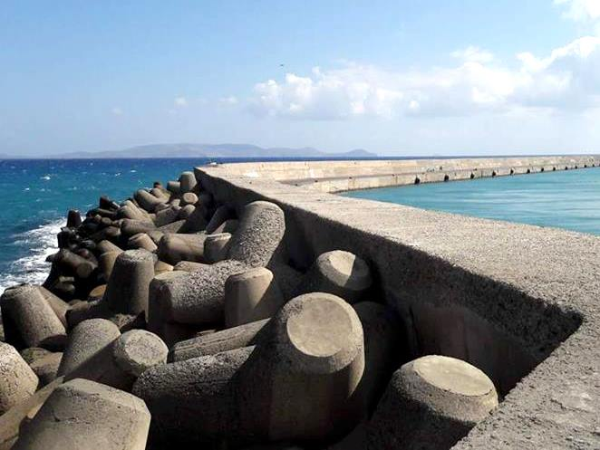 Tetrapod protection in a marina on Crete island, Greece